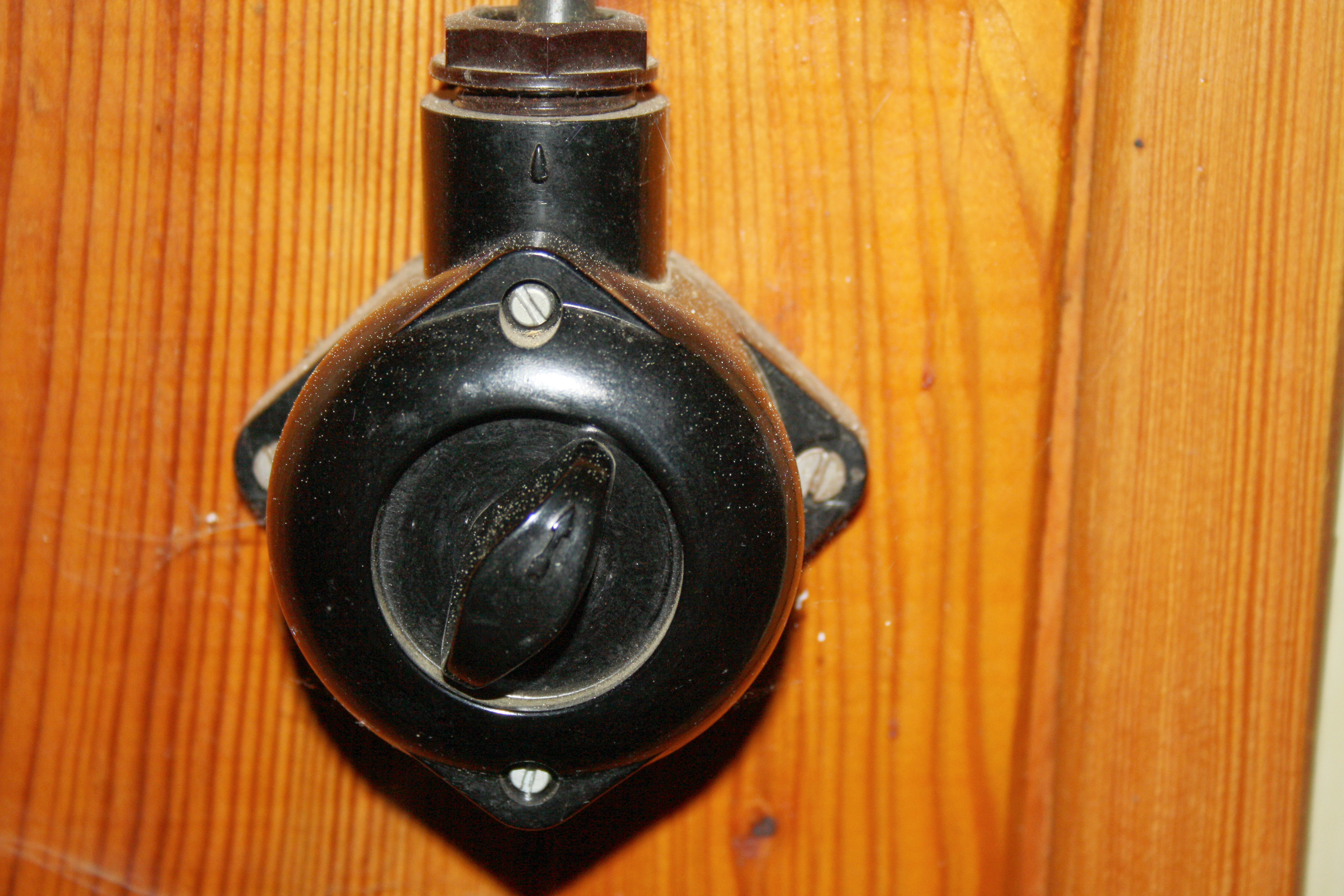 Old rotary light switch in Czech Republic.